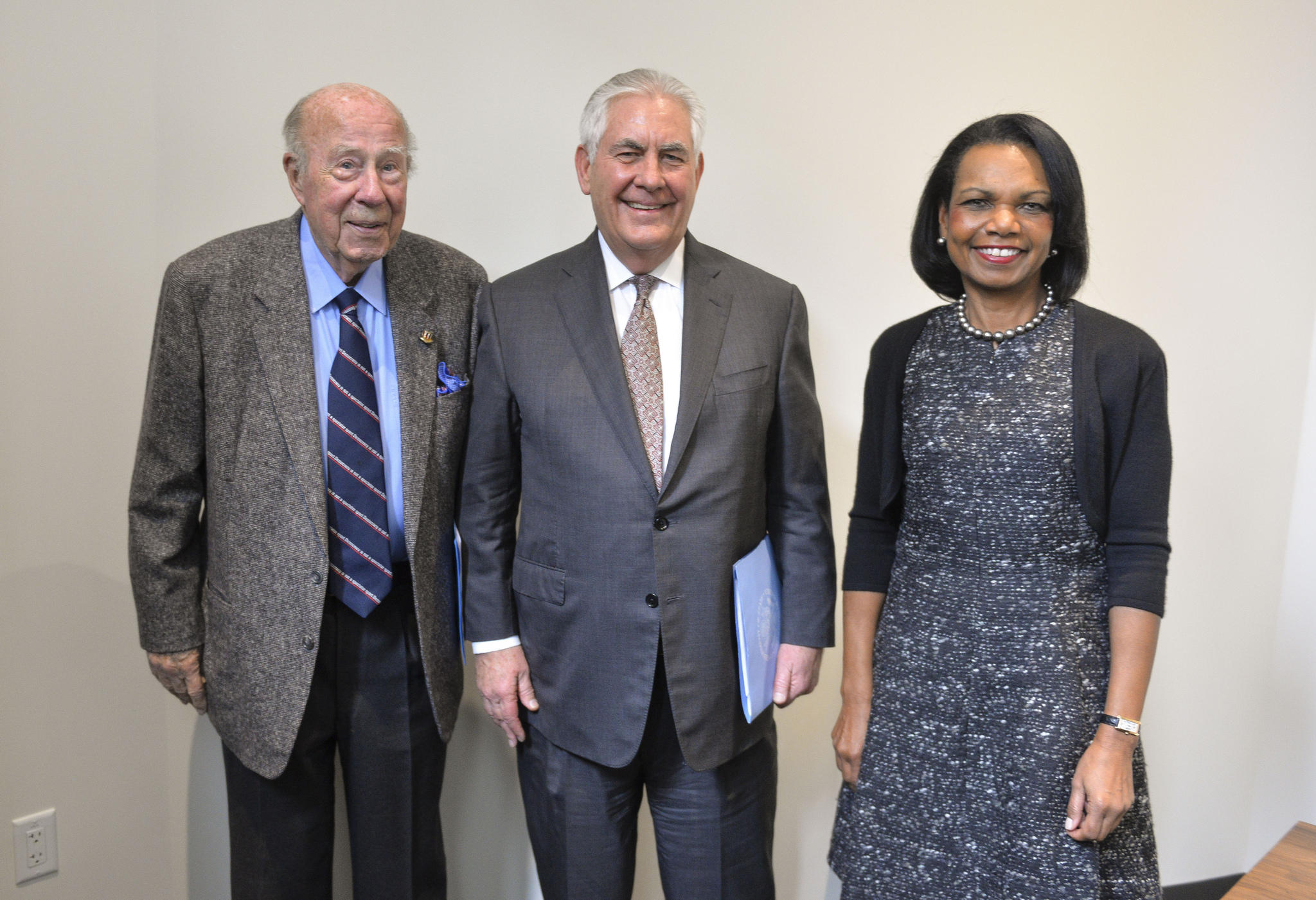 U.S. Secretary of State Rex Tillerson and former U.S. Secretary of State Condoleezza Rice and George P. Shultz meet prior to Secretary Tillerson's Stanford University speech on the Way Forward for the United States regarding Syria, at the Hoover Institute, Stanford University, in Stanford, California on January 17, 2018. [State Department Photo/ Public Domain]